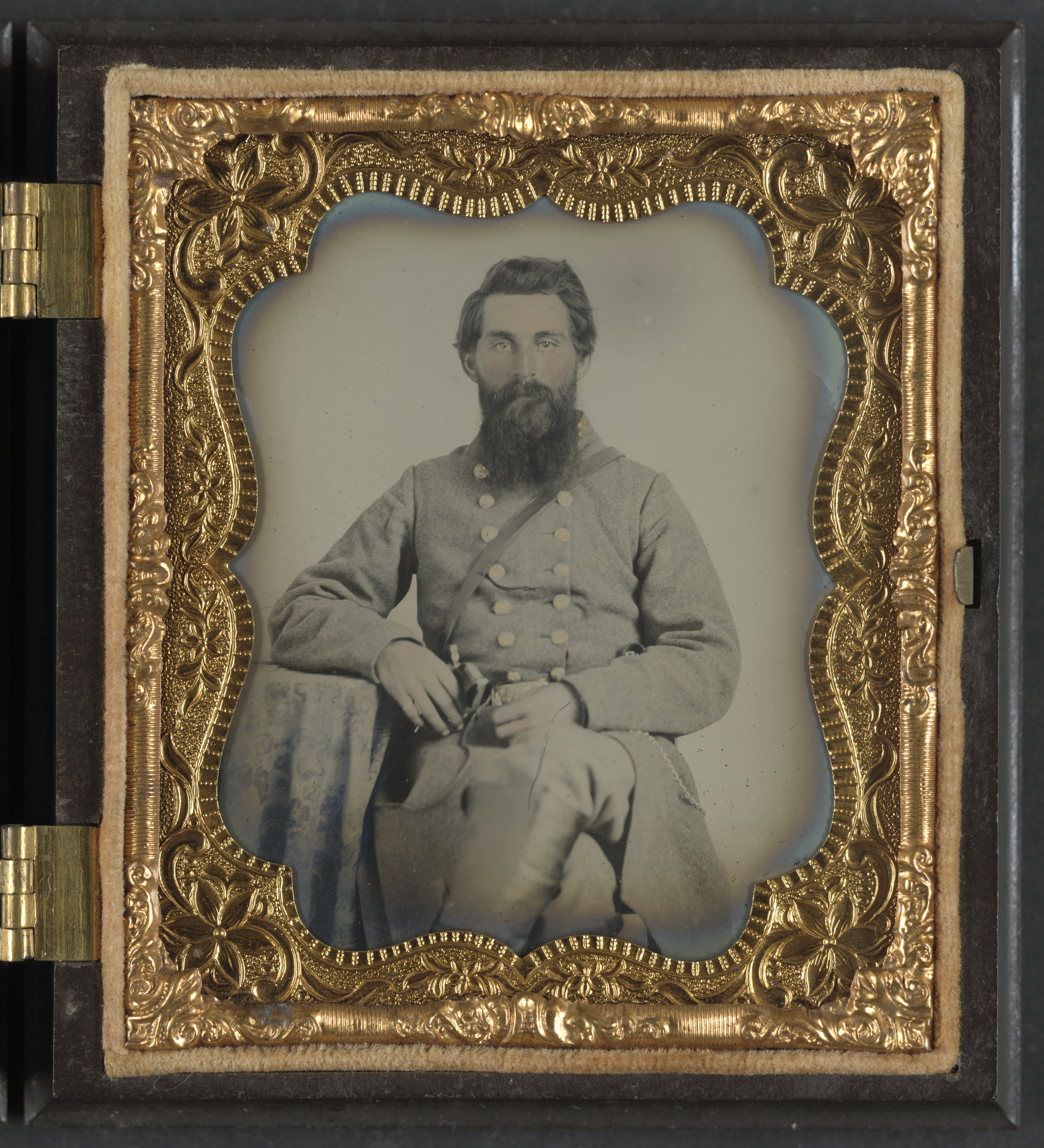 Title: Captain Joel Houghton Abbott of Co. K, 22nd Virginia Infantry Regiment, and Co. H, 8th Virginia Cavalry Regiment Abstract/medium: 1 photograph : sixth-plate ambrotype, hand-colored ; 9.7 x 8.7 cm (case)